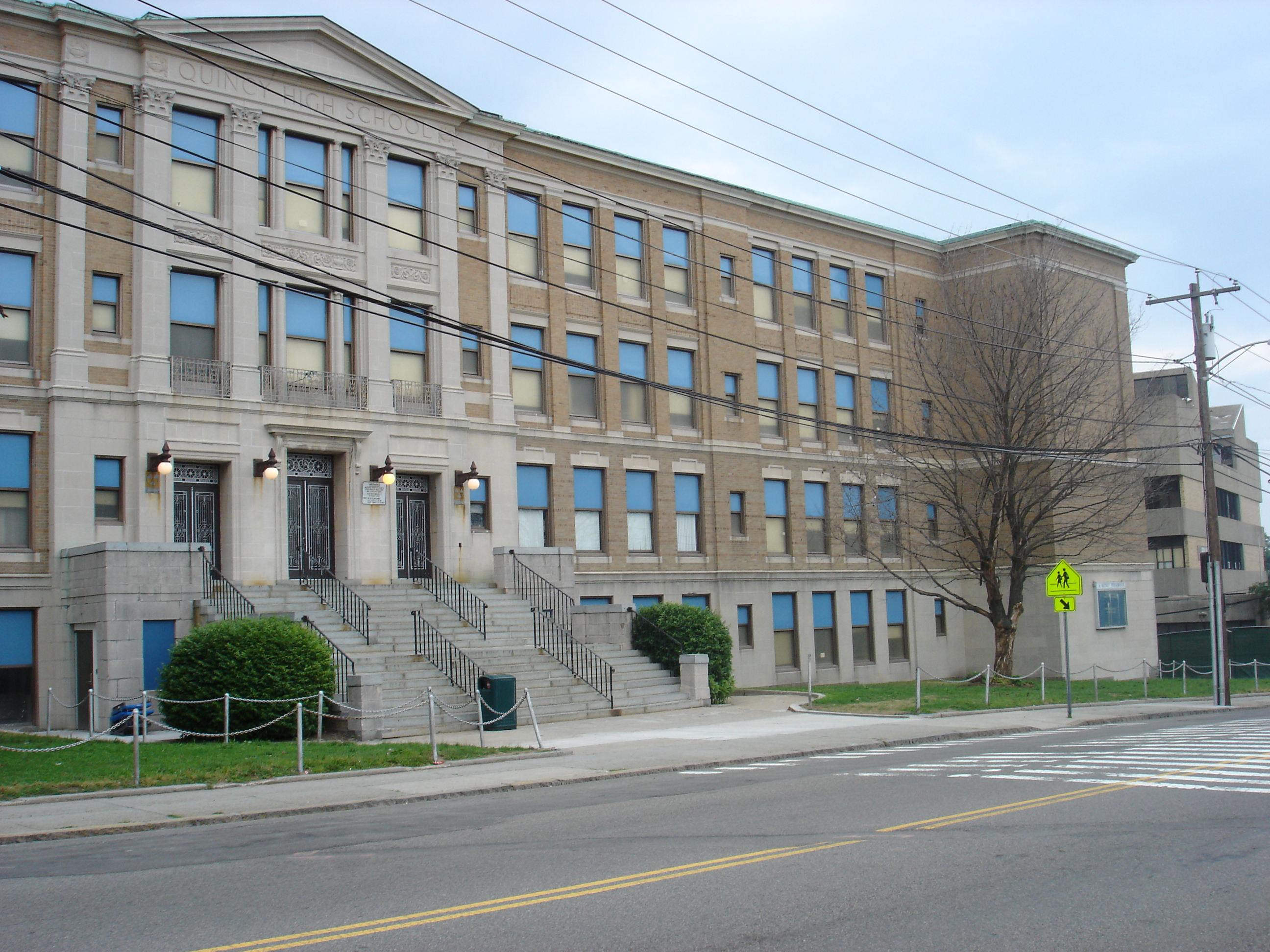 The main building of Quincy High School, with the Vocational Technical Center visible in the background.